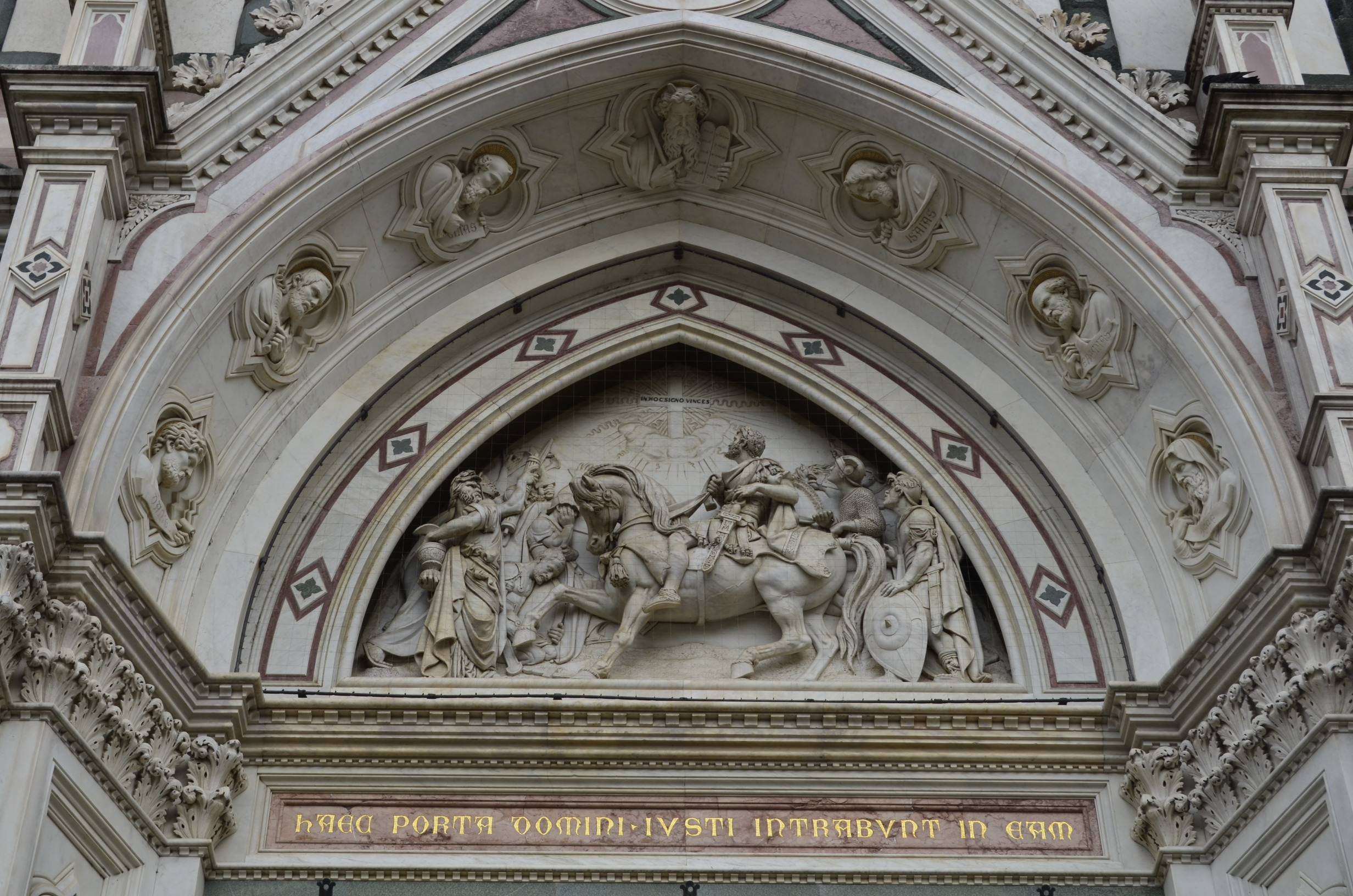 Santa Croce (Florence) - Facade arc close up